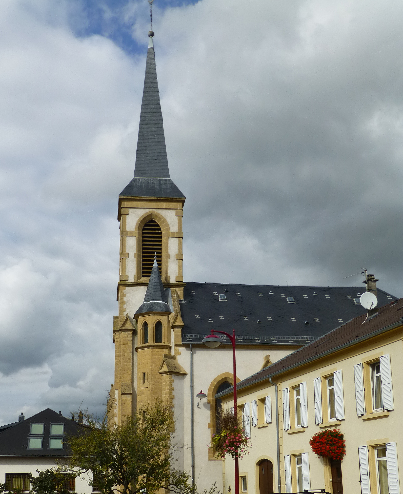 Church of Kuntzig, side view. Moselle department. Note the white painting (absent in the 2011 picture).